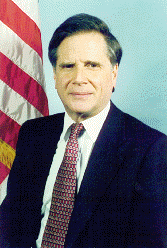 Peter Tarnoff, Undersecretary of State for Political Affairs